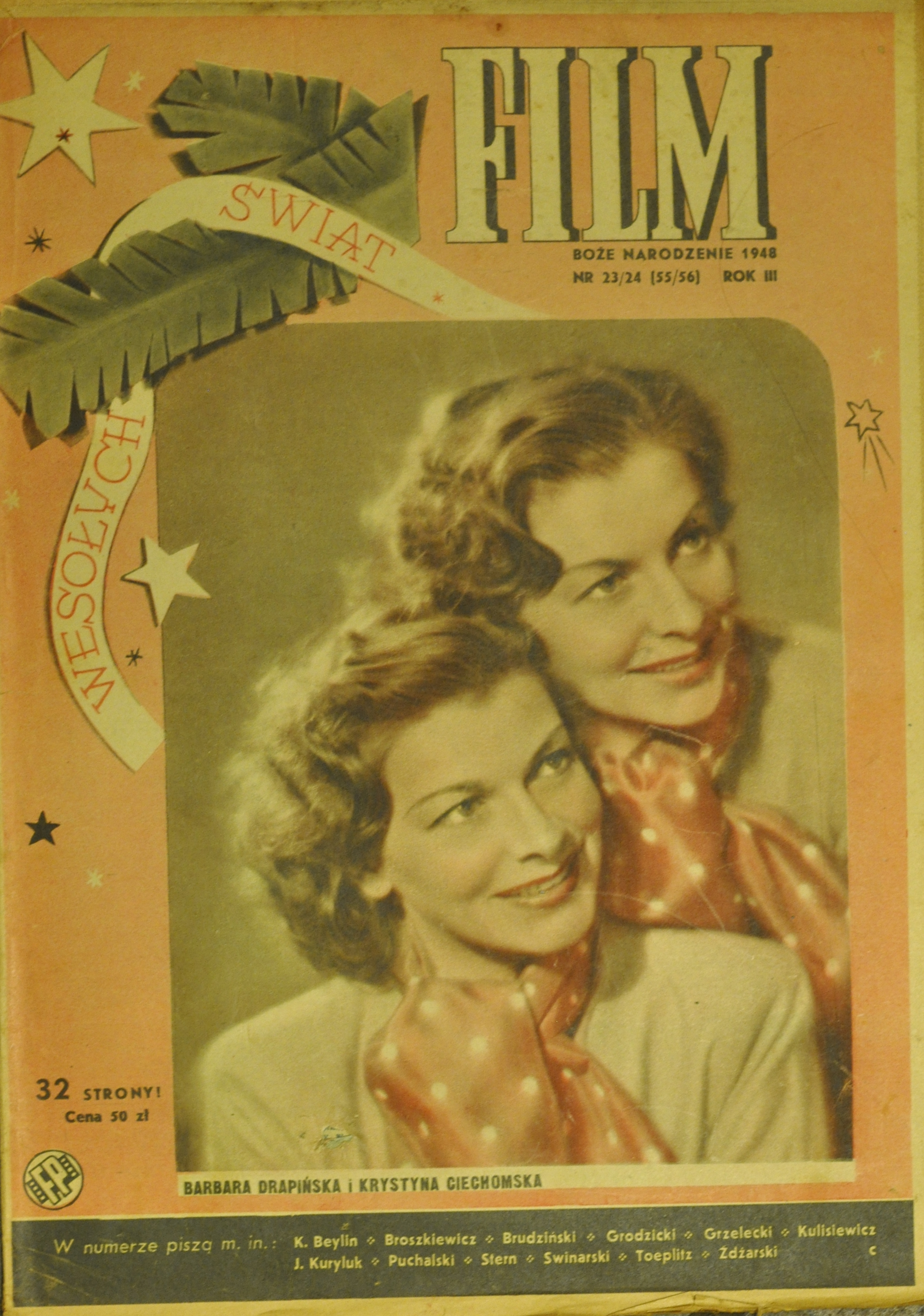 Front cover of Polish magazine Film Nr. 55-56 with Barbara Drapińska and Krystyna Ciechomska